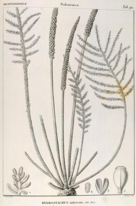 Illustration of Hydrostachys imbricata